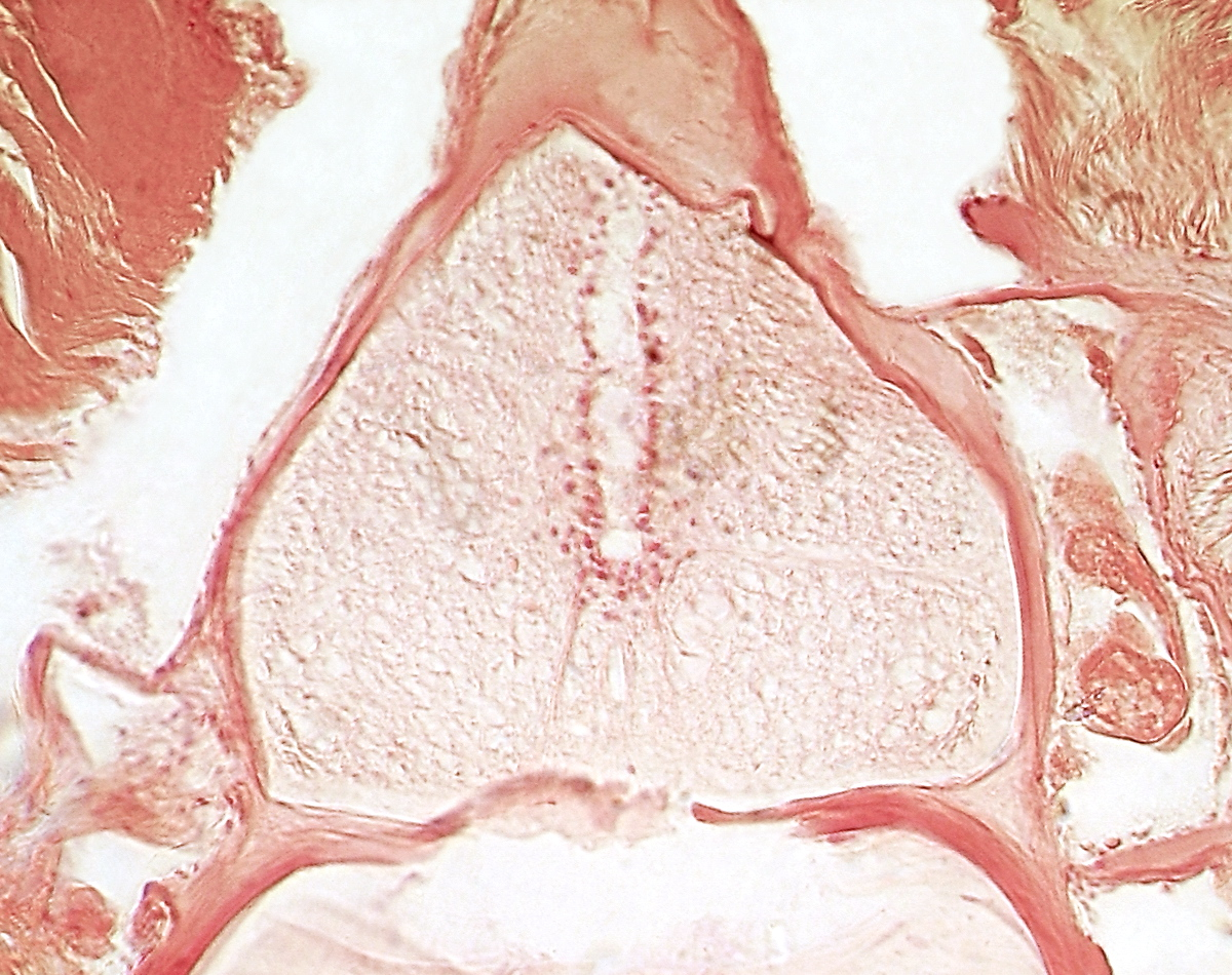 Lancelet's nerve cord